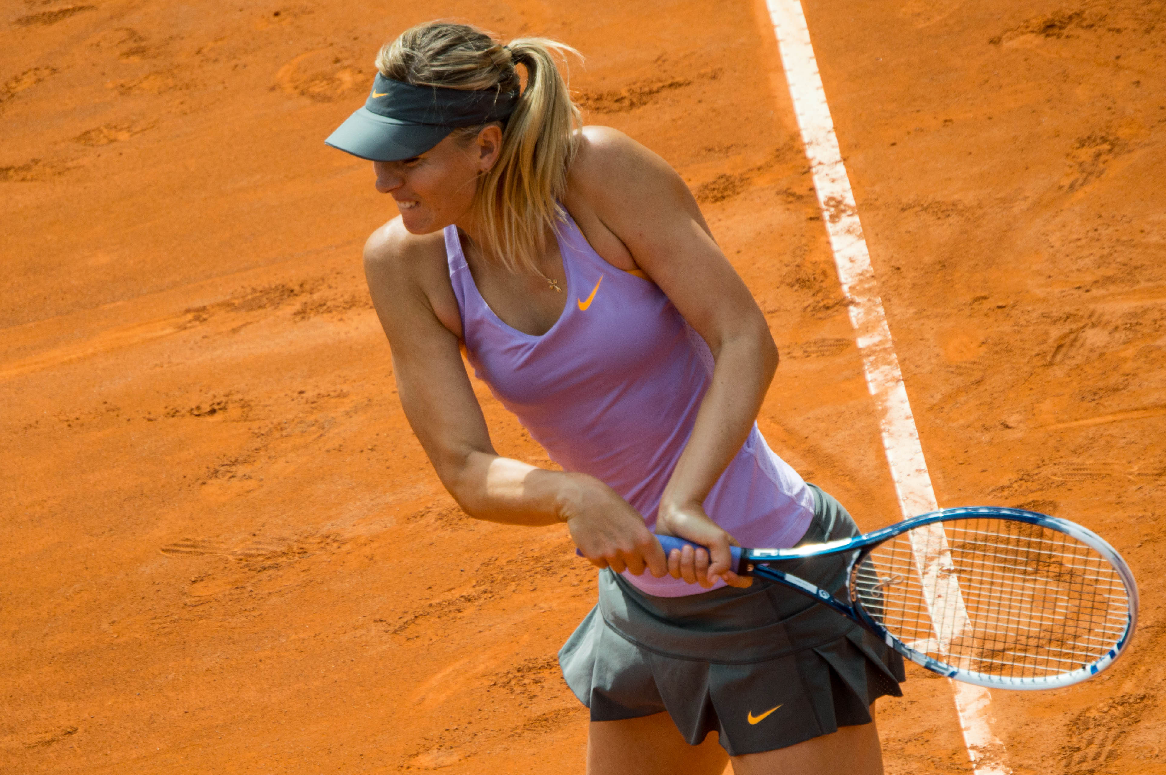 Maria Sharapova